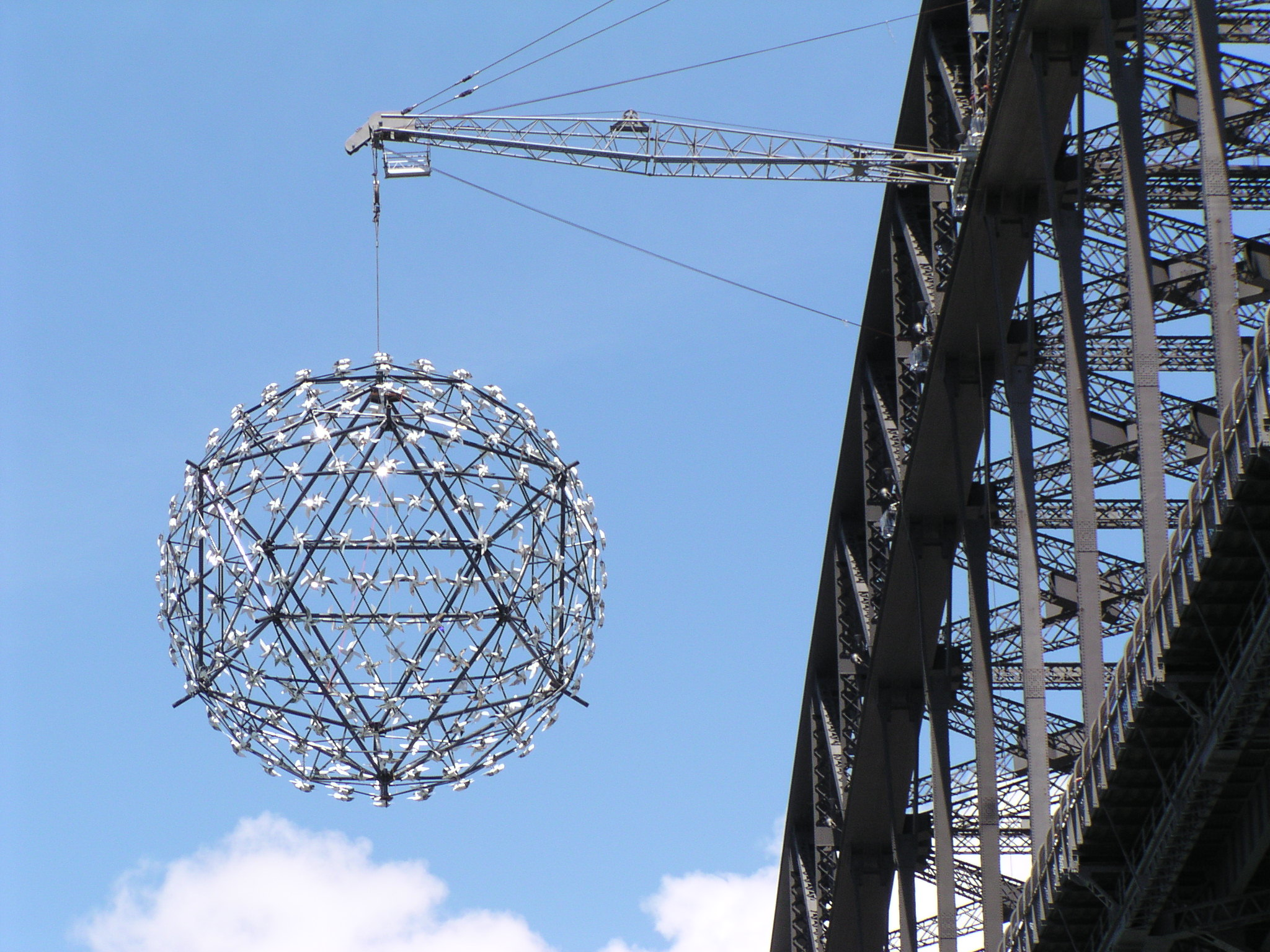 View of the 'mirror ball' hung from the side of the bridge for New Year.